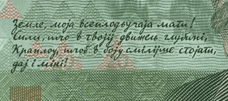 Detail from the 2003 twenty-hryvnia note, showing the fragment of Franko's handwriting in the Drahomanivka alphabet.